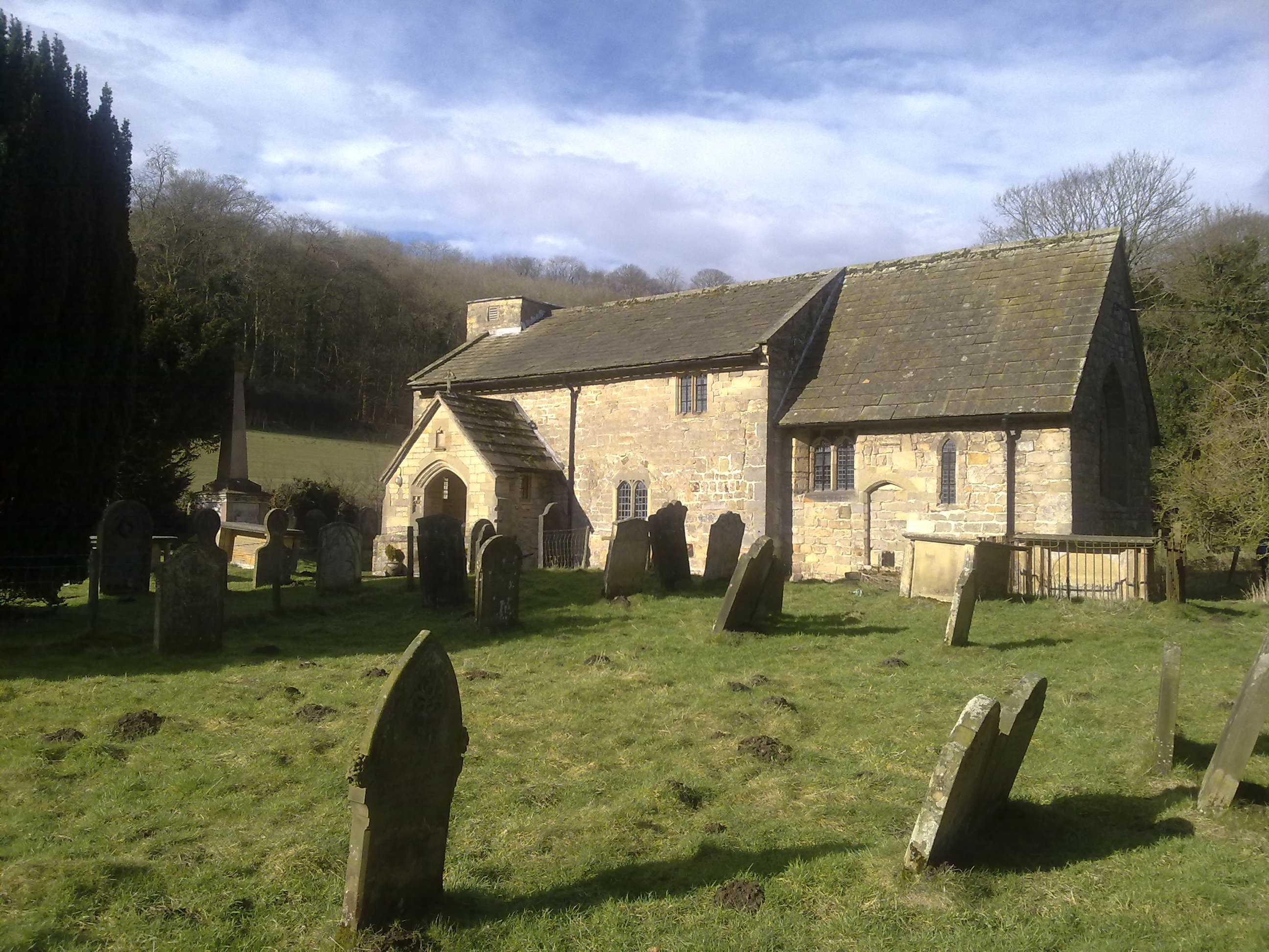 St Hildas church, Ellerburn